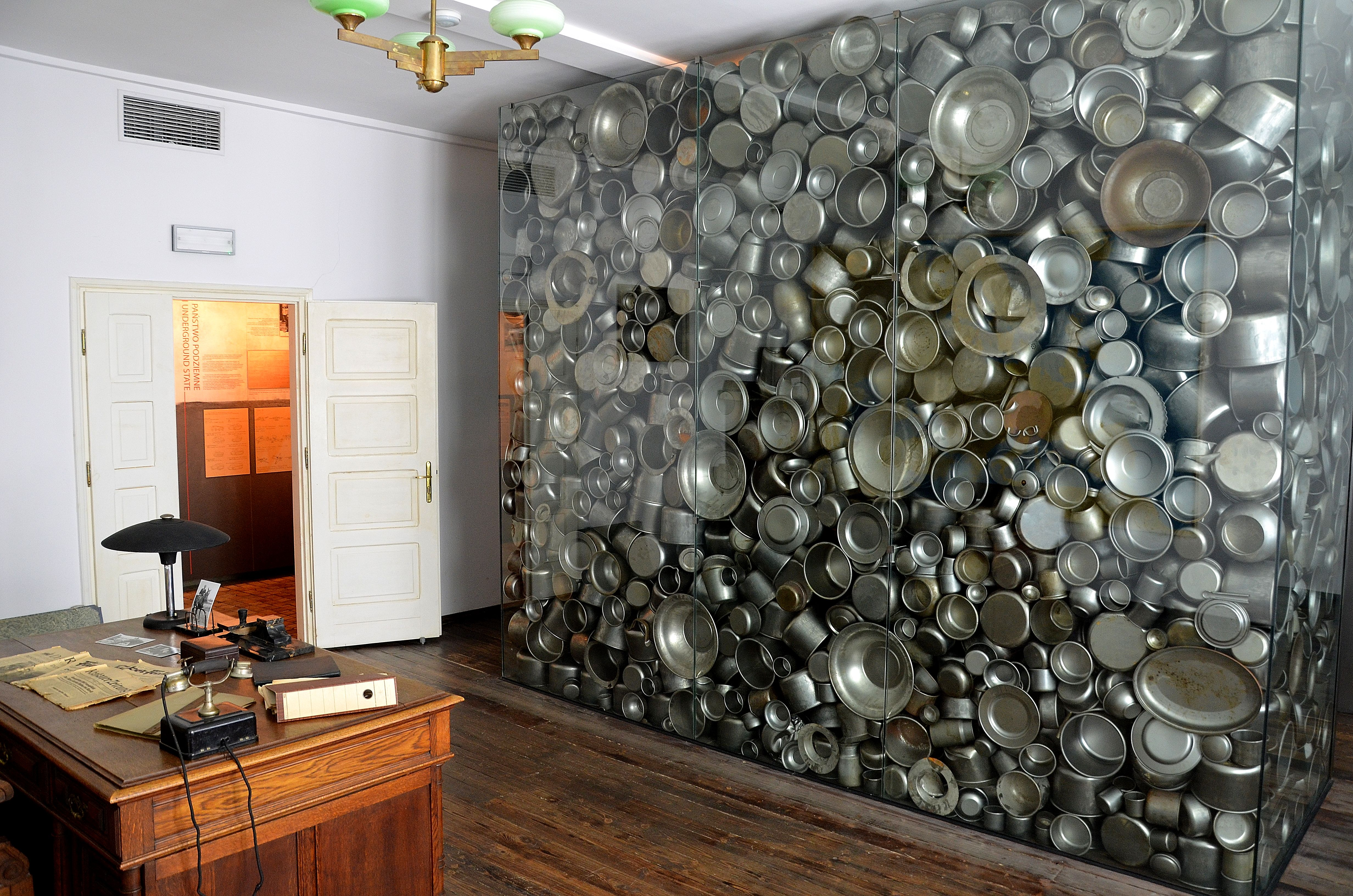 Oskar Schindler’s desk and the tinware sarcophagus with the famous list inside at Schindler’s Emalia Factory in Kraków.